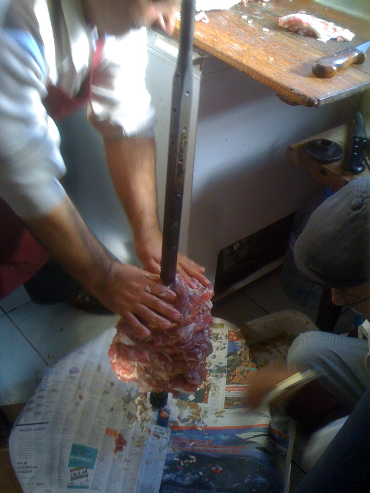 Cağ Kebabı of Erzurum in Turkey - Preparation phase